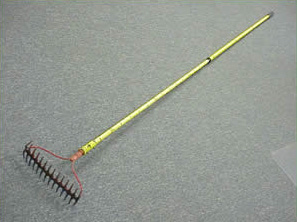 A rake (tool)